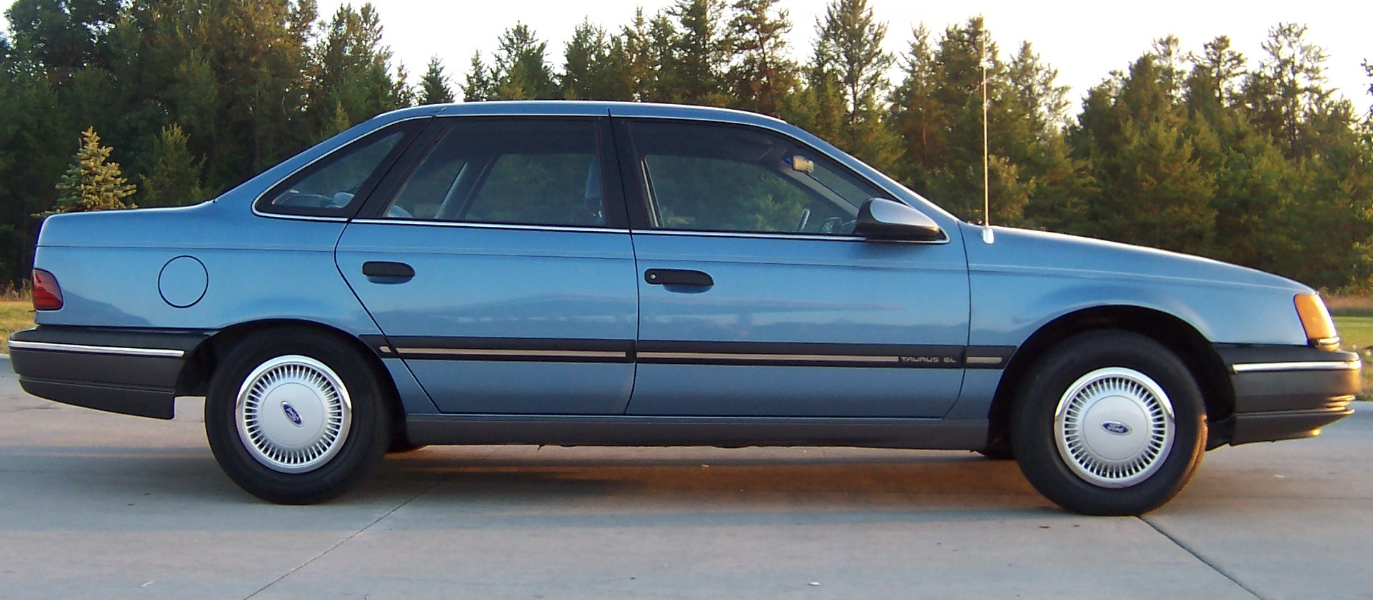 Photograph by OptaView of auto owned by same 9/18/2018. This is a 1990 Ford Taurus GL shown with original standard and optional equipment including deluxe wheel covers and the 3.0 Vulcan V6. It is one of 333,001 Ford Taurus's built for the 1990 model year. It was built in Chicago, IL, USA.